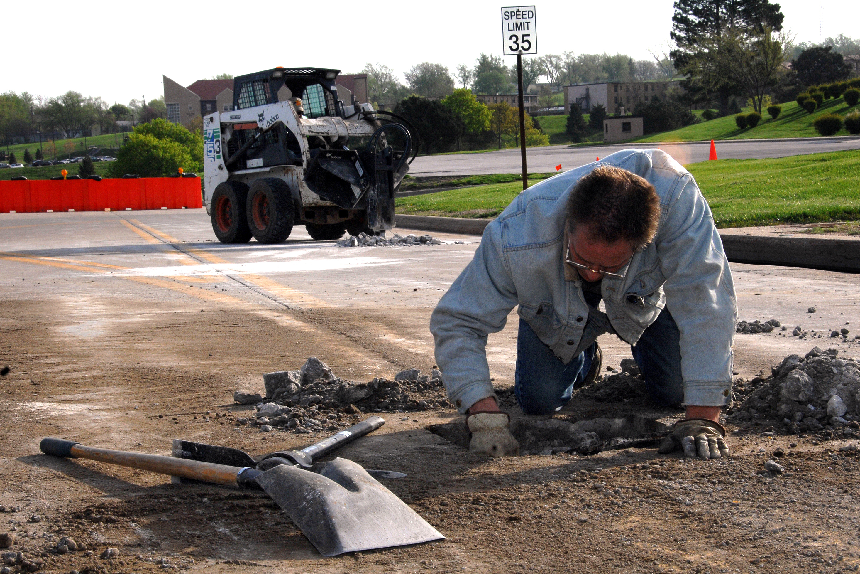 Mike Wollery, a maintenance and equipment staff member from the 55th Civil Engineer Squadron, removes broken concrete from a pot hole near the corner of SAC Boulevard and Peacekeeper Drive here May 6. The Civil Engineer Squadron is working hard to repair the roads on Offutt after a brutal winter.